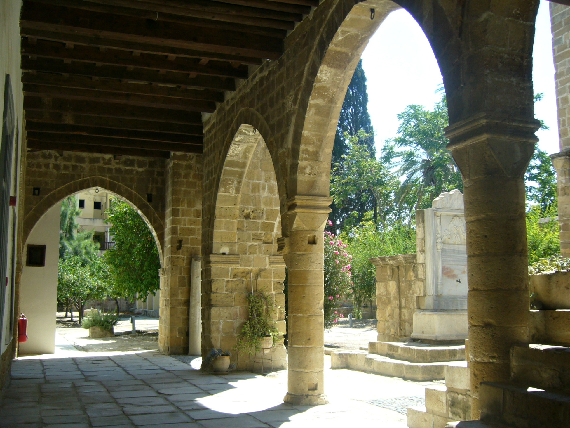 The courtyard of the Hadzhigeorgakis Kornesios'house (now Ethnographic Museum) in Nicosia, Cyprus.